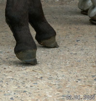 very extreme hoofes